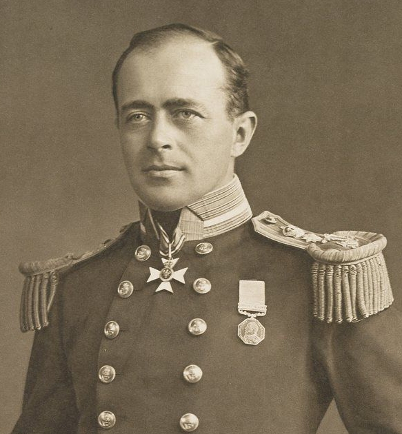 Crop of Robert Falcon Scott in full regalia: this was reproduced as a frontispiece for Scott's The Voyage of the Discovery (London 1905)